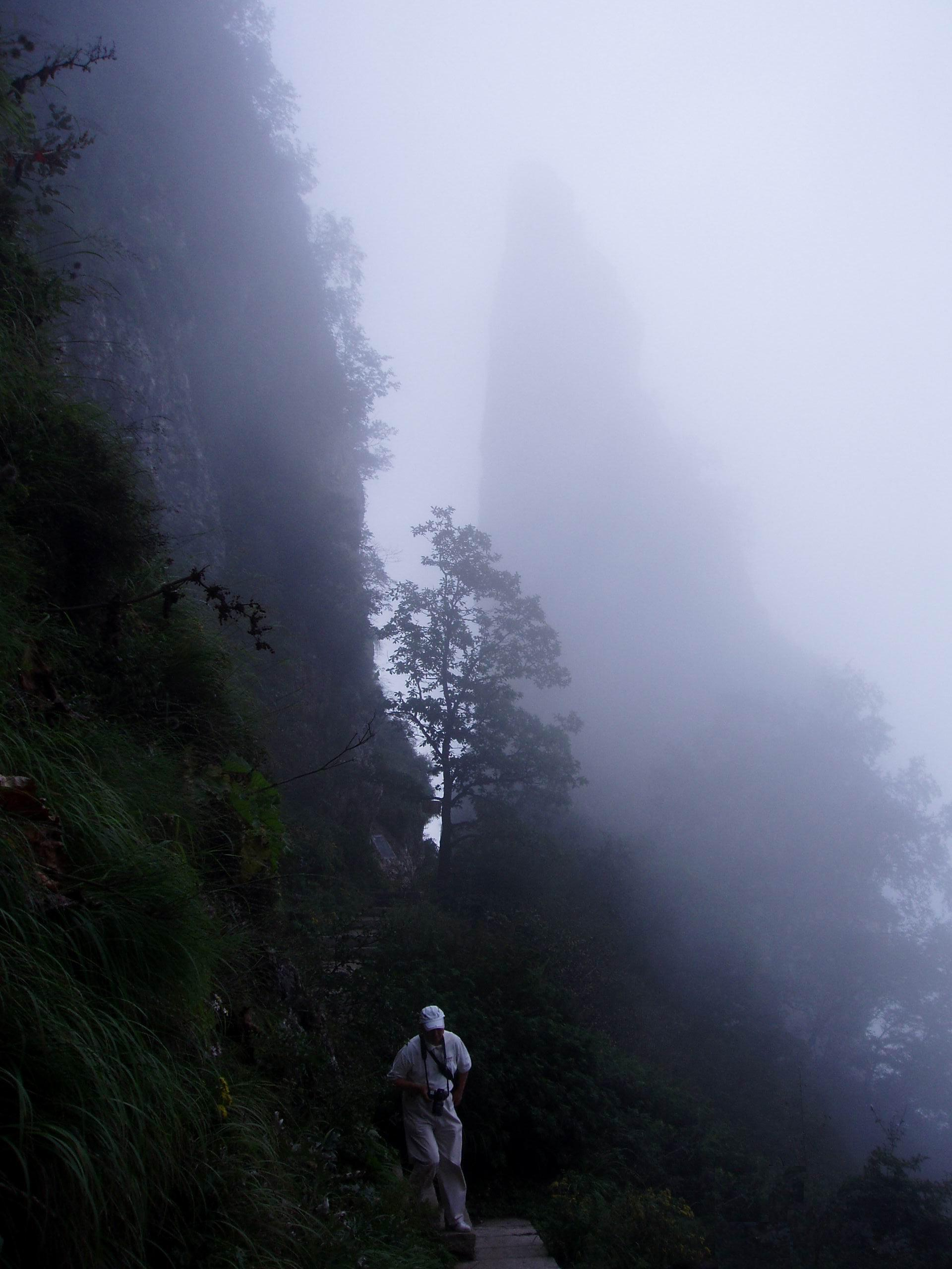 Taihang Shan Mountains in North China